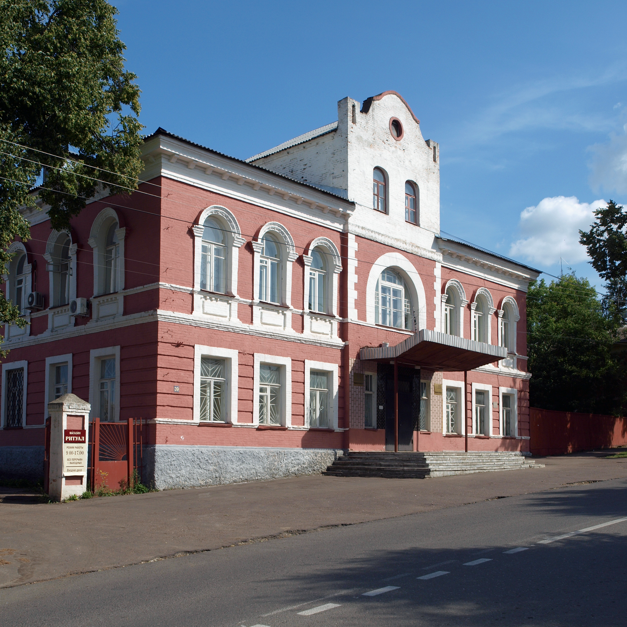 Former town hall building in Kashira.